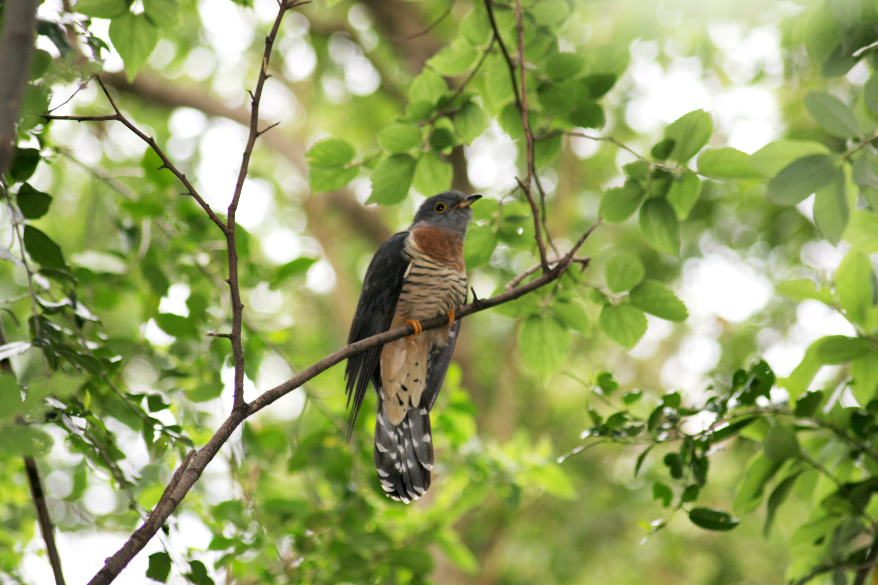 Red-chested Cuckoo (Cuculus solitarius) perched in a tree "Afrikaans common name: Piet-my-vrou. Named after it's distinctive 3 note call. Piet-my-vrou translates to Peter-my-wife . This bird posed for long, very unusual for a cuckoo. Unfortunately I was all thumbs so I took half the pictures with no flash and although they were better composed they are just too dark. Taken at Walter Sisulu Botanical Gardens."